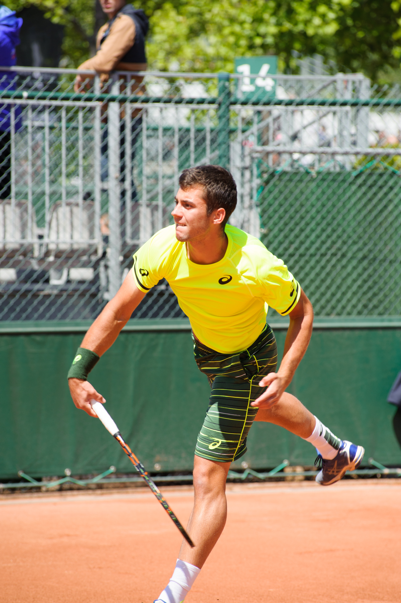 2015 Roland Garros Qualifying Tournament, Paris, France.